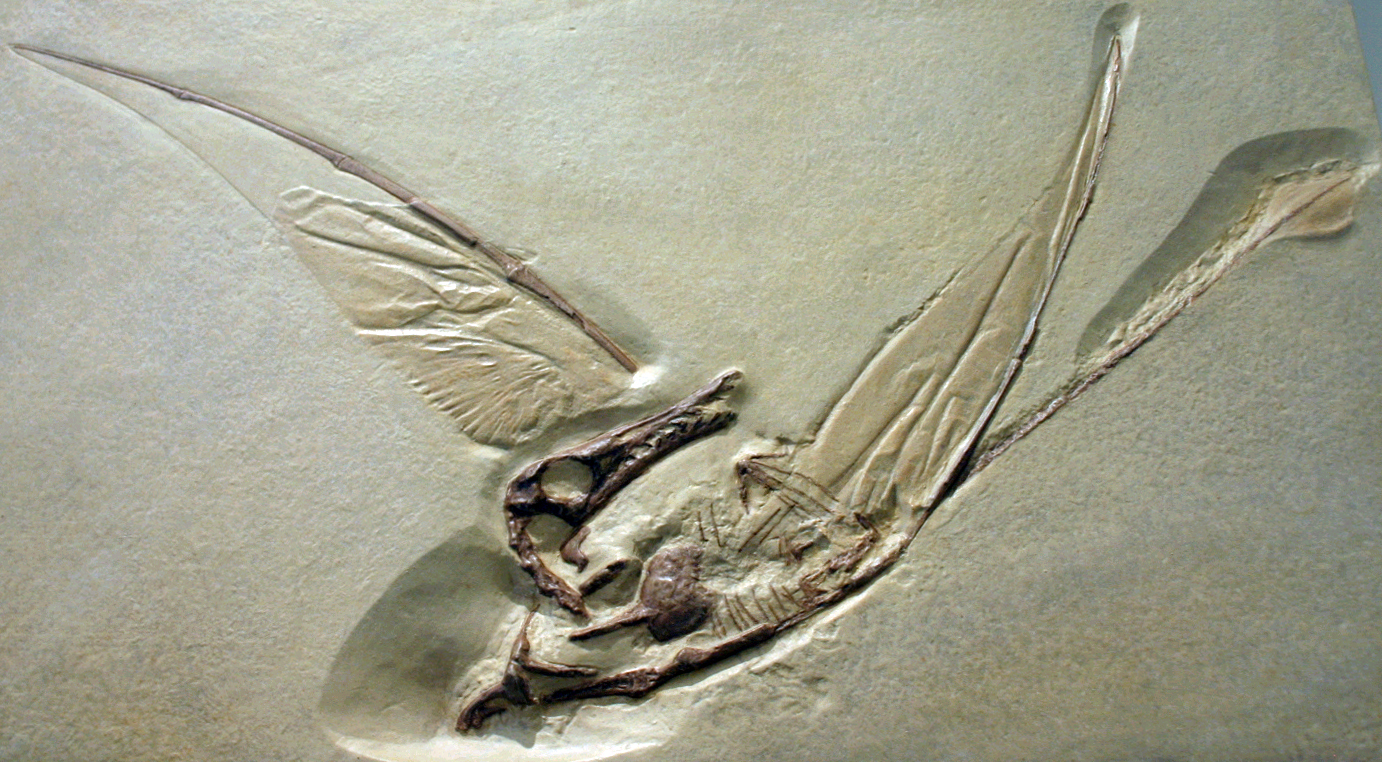 Cast, Rhamphorhynchus muensteri